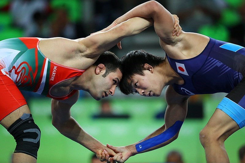 2016 Summer Olympics, Men's Freestile Wrestling 57 kg. Rahimi (Iran) vs Higuchi (Japan).